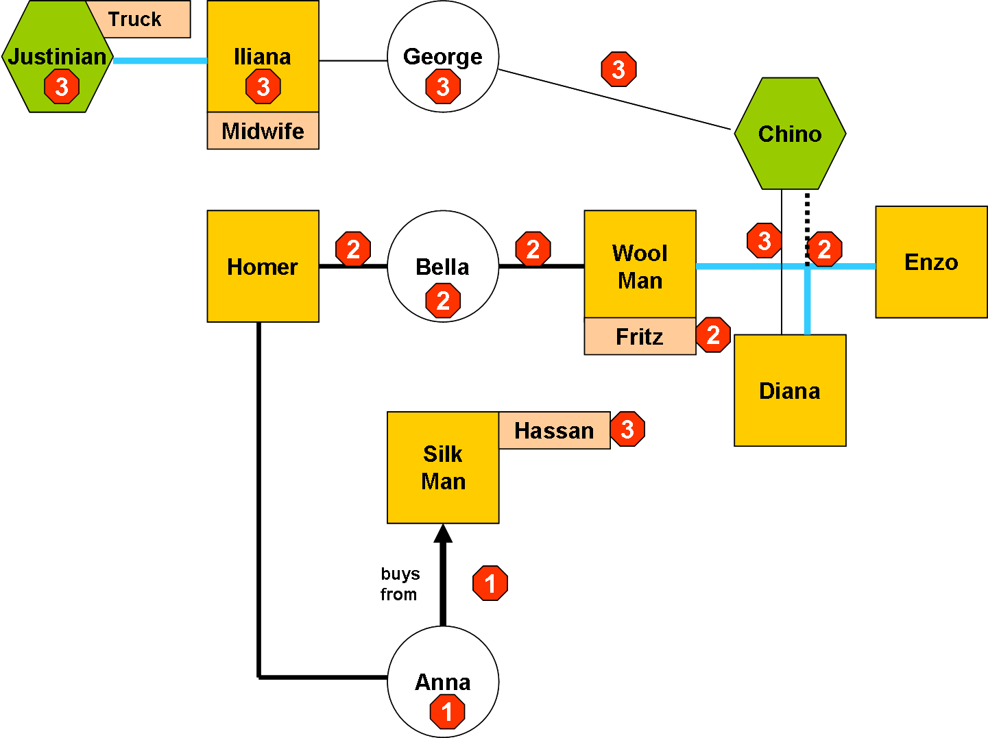 Social network from third interview